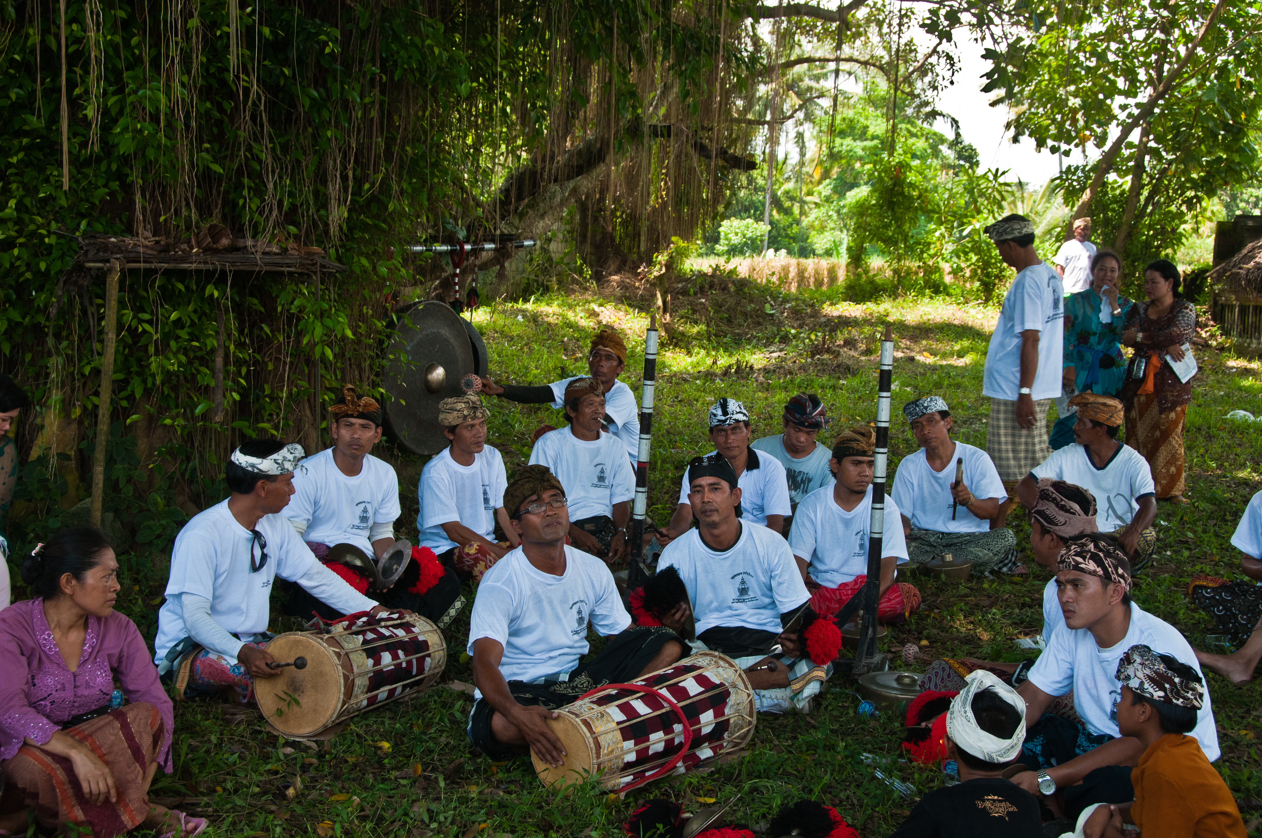 Ngaben Gamelan Beleganjur For more information on the ritual music: Russell Hartenberger (2016), The Cambridge Companion to Percussion, Cambridge University Press, ISBN 978-1-316-54621-5